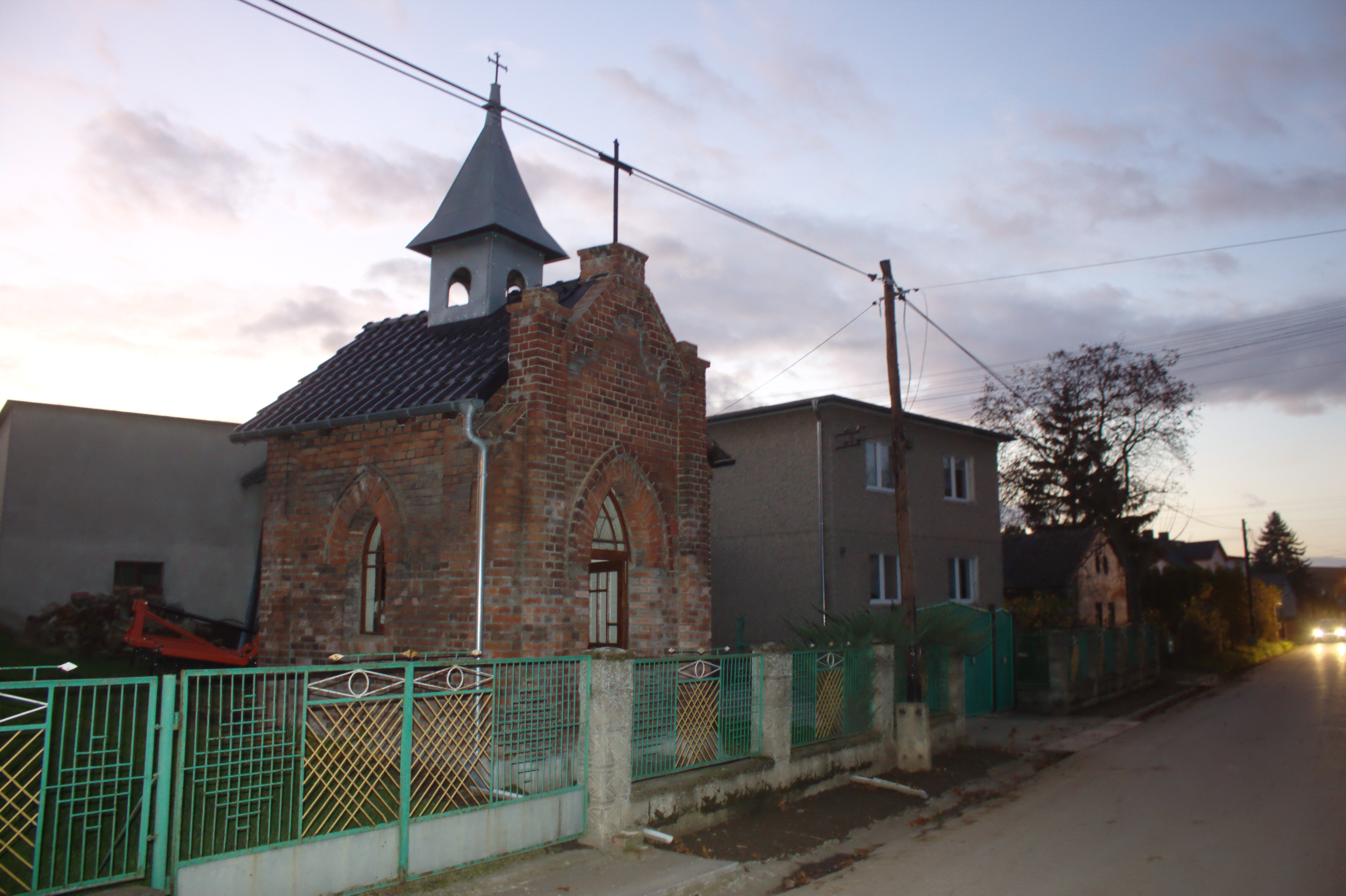 A chapel in the village of Jastrzębie, Poland